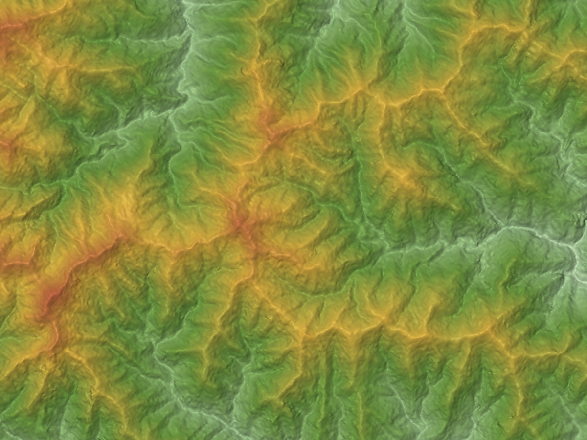 Around Mount Kumotori in Honshu, Japan.